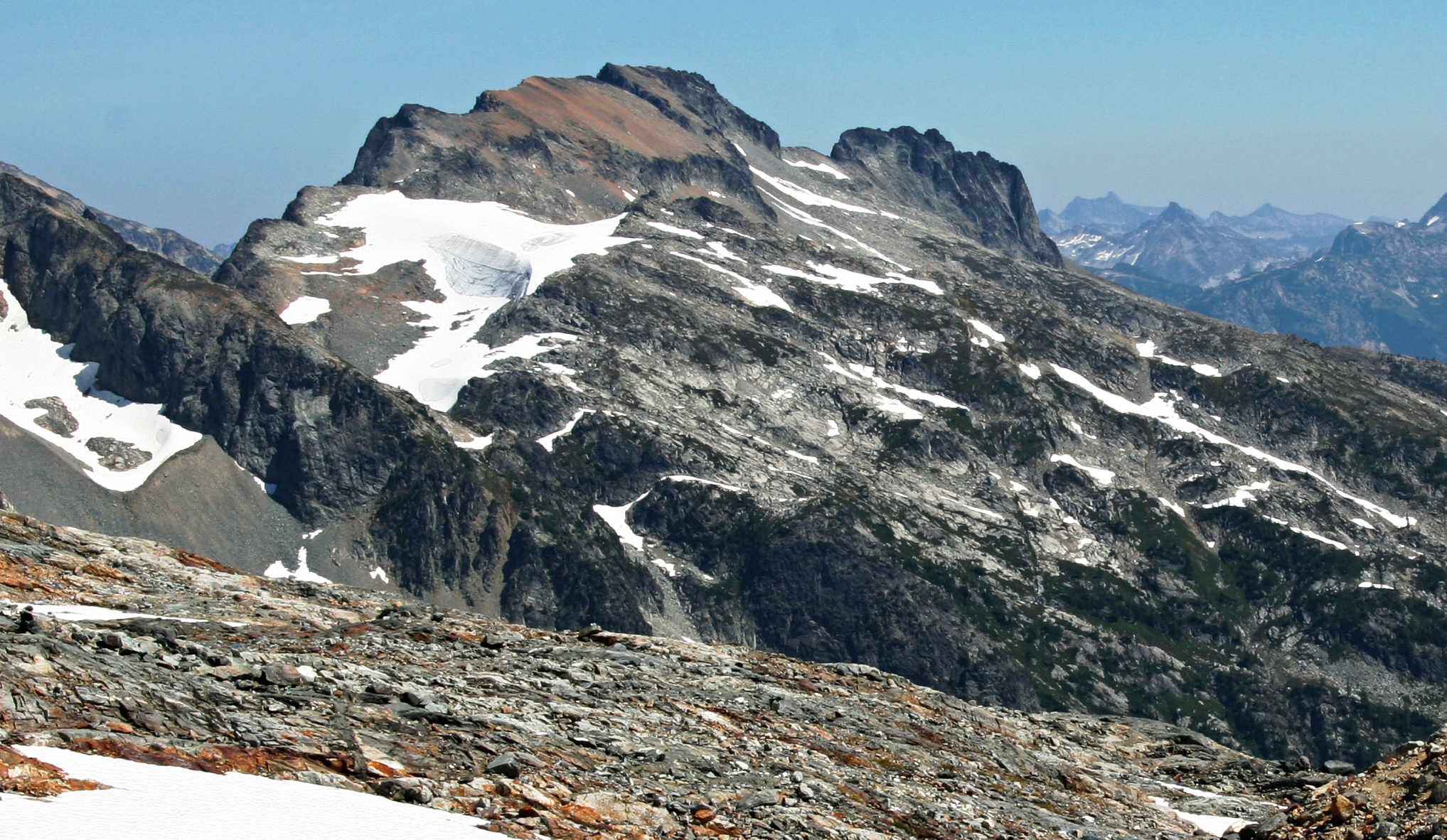 Booker Mountain seen from Sahale Glacier on Sahale Glacier. North Cascades National Park